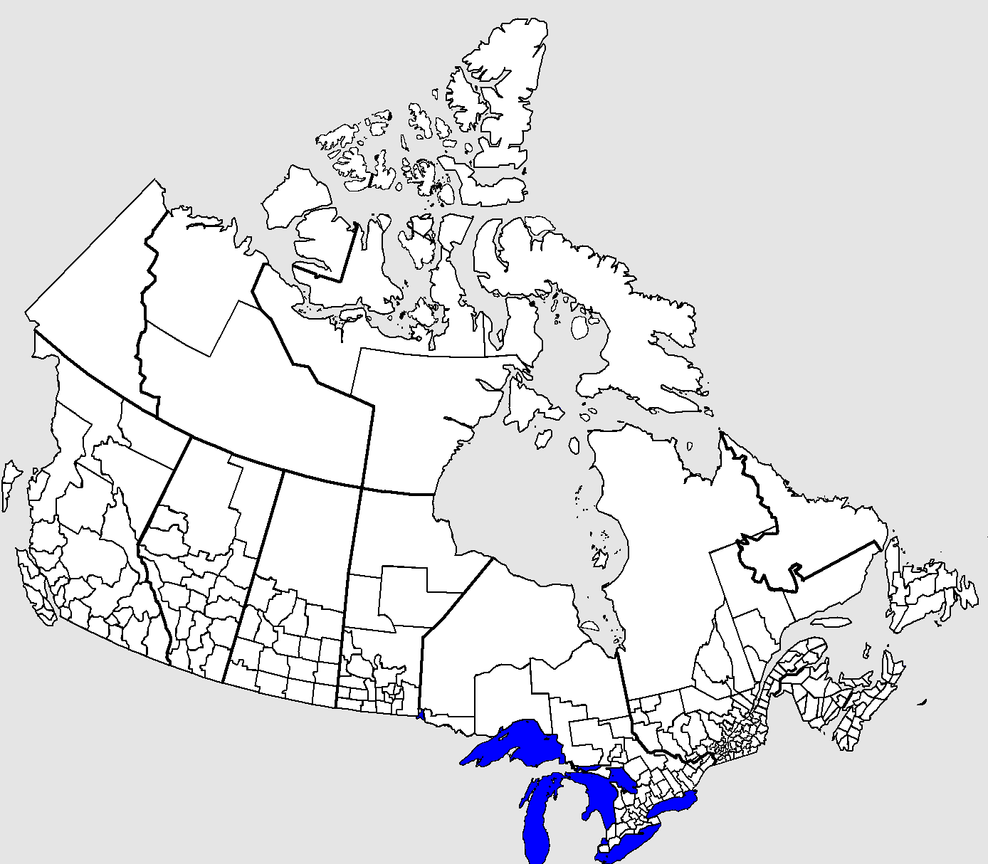 Census Division in Canada.